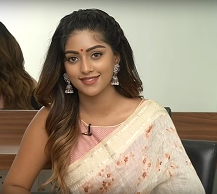 Indian film actress Anu Emmanuel in an interaction with the press in September 2018